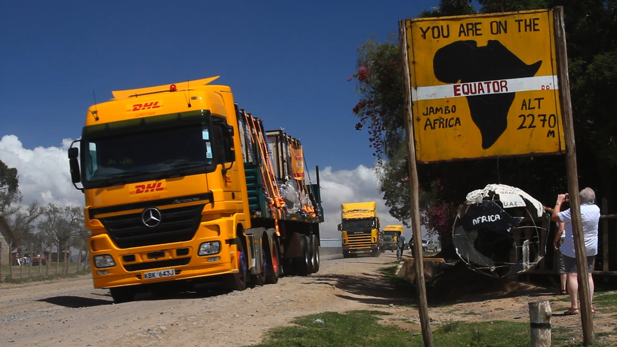 Translocation of Northern White Rhinos crossing the equator on route to Ol Pejeta Conservancy, central Kenya.